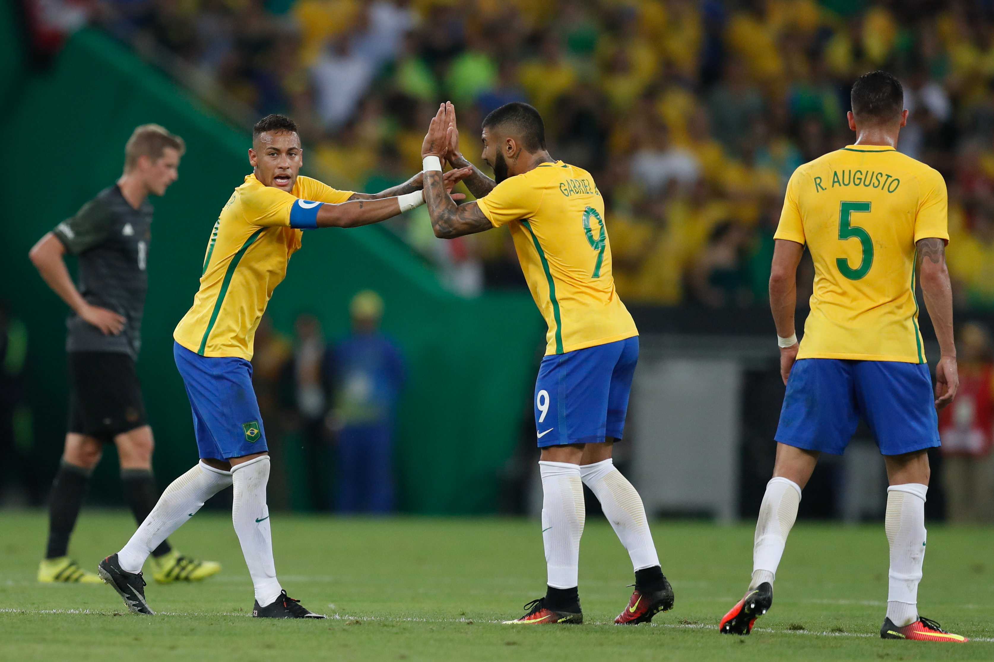 Rio de Janeiro - Brasil e Alemanha disputam a medalha de ouro no futebol masculino (Fernando Frazão/Agência Brasil)